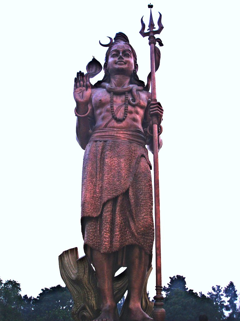 Statue of Lord Shiva